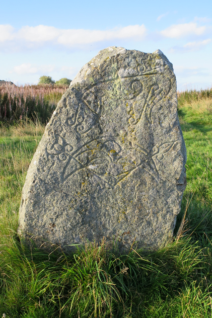 Broomend of Crichie Stone Circle (4). This stone is not part of the original Crichie Stone Circle. It was found about 50 metres away, and re-erected here in about 1850 to preserve it. The carvings date from the seventh century and are of two of the classic Pictish symbols; a 'Pictish beast' (sometimes called an 'elephant') above, and a crescent and V-rod below. for details.